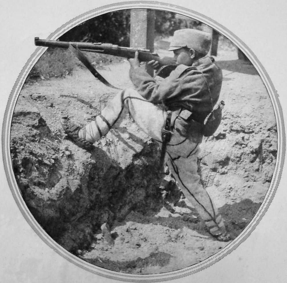 Dragoljub Jelicic, 12 year old First World War soldier in the Serbian Army.